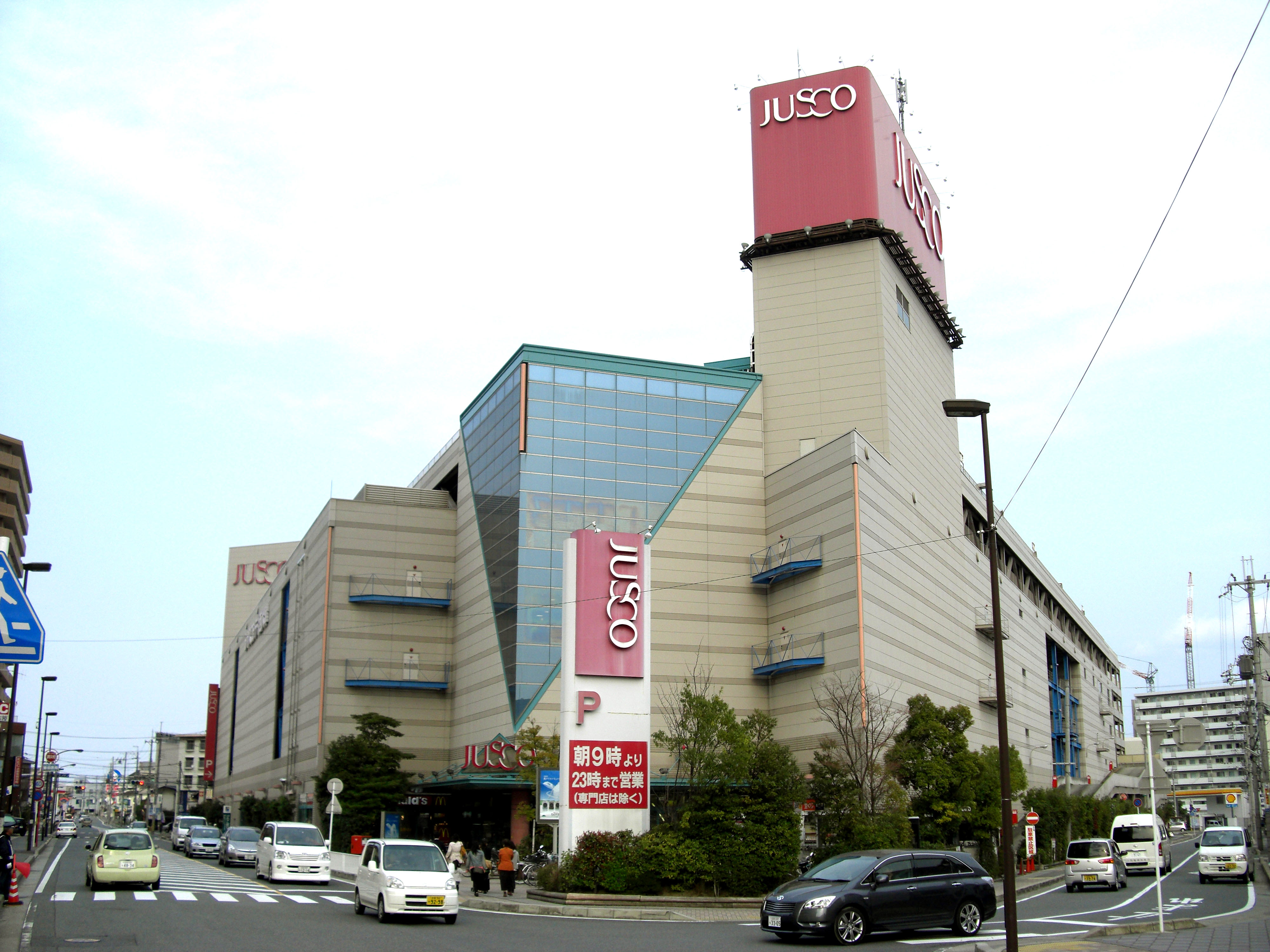 JUSCO City Nishi-Otsu,Ojigaoka Ostu-City Shiga Japan.